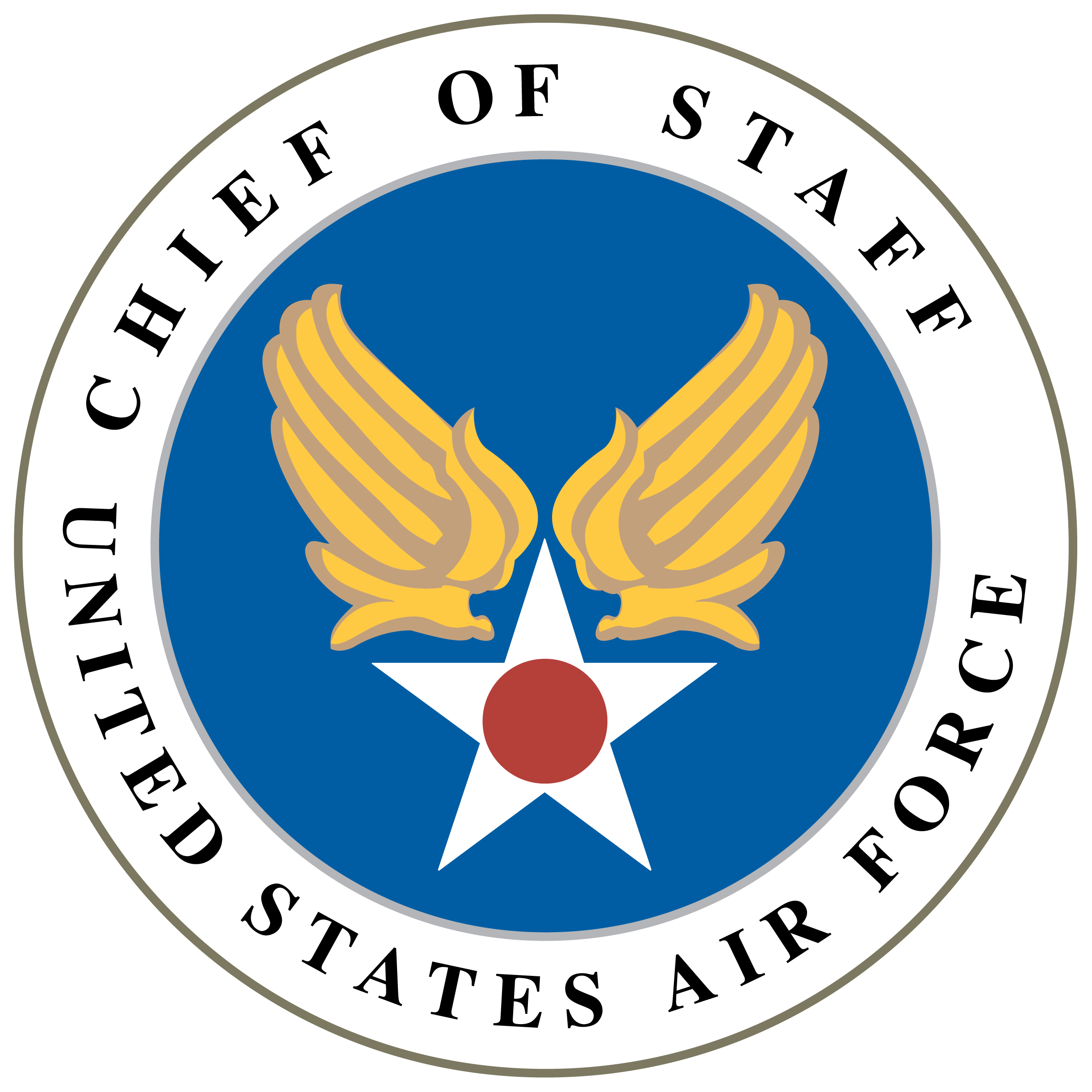 Seal of the Chief of Staff of the United States Air Force (Properly Aligned)